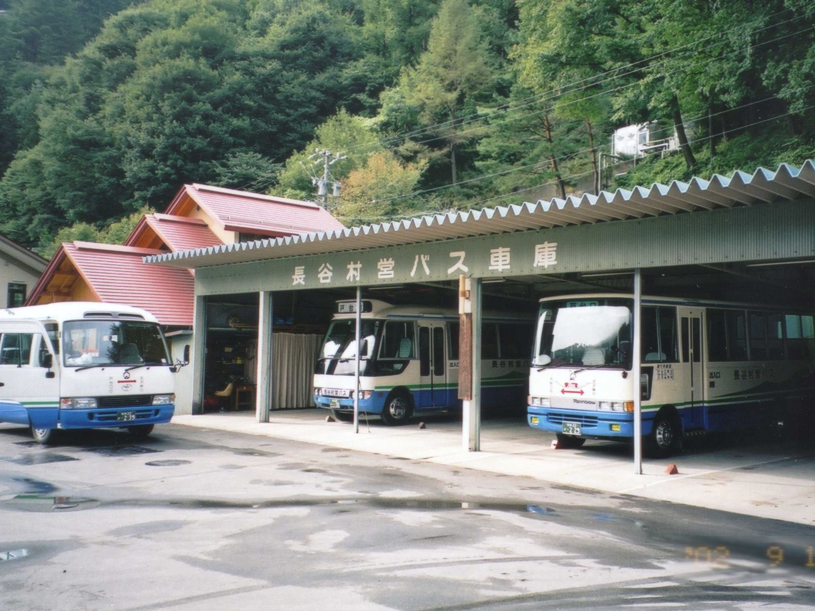 Hase village bus